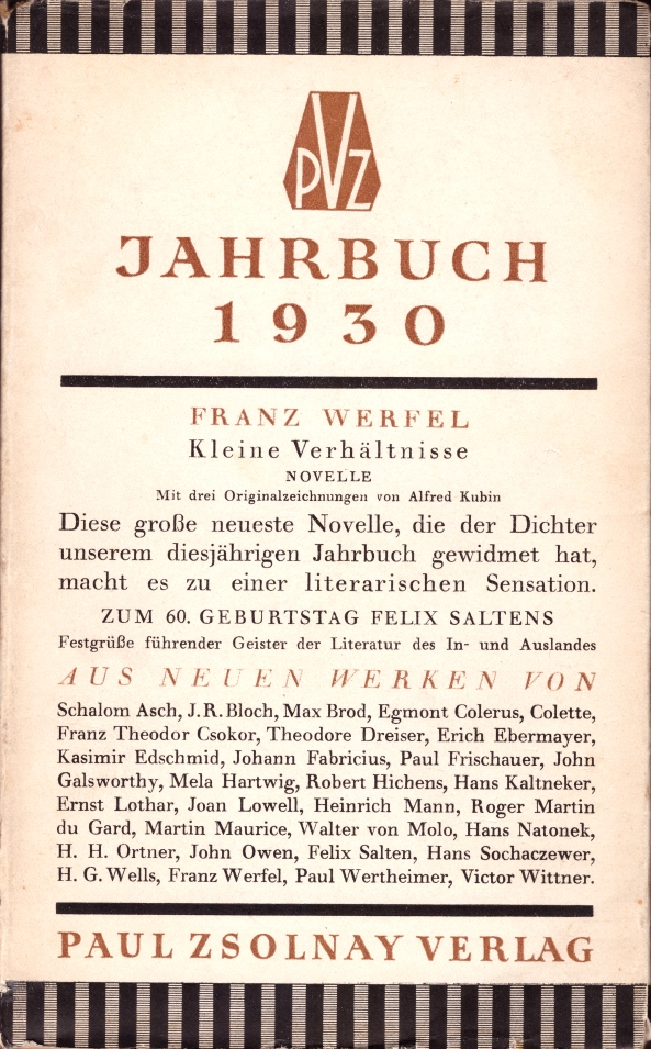 Cover of the 1930 yearbook of Paul Zsolnay Verlag, published late 1929.